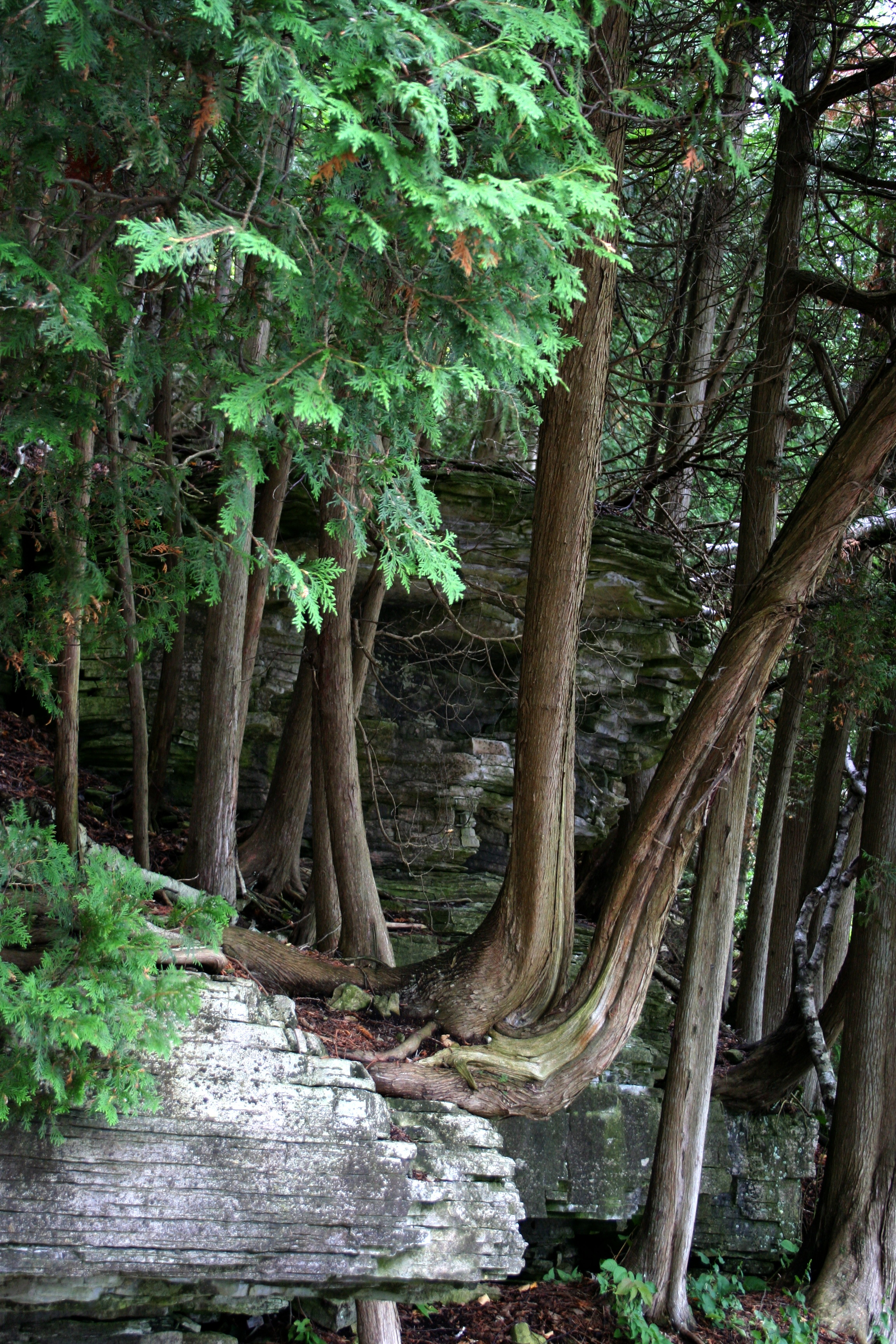 Thuja occidentalis trees on a rock ledge. Potawatomi State Park, near Sturgeon Bay, Wisconsin, USA.